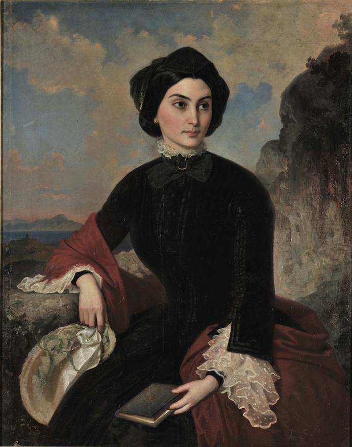 Cleoniki Gennadiou, circa 1856-1859